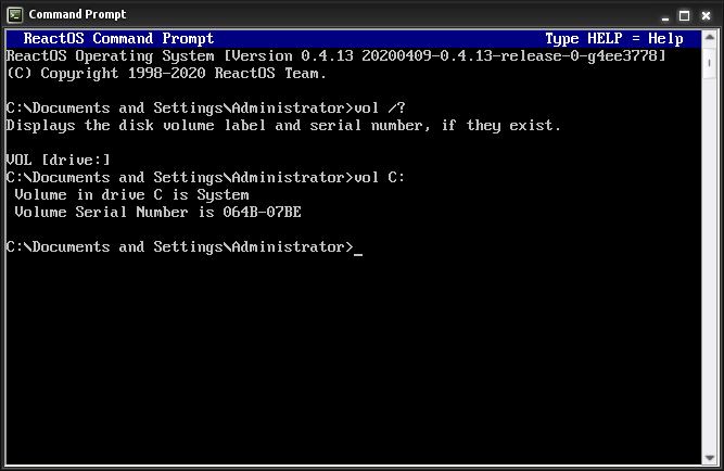 vol command on ReactOS-0.4.13